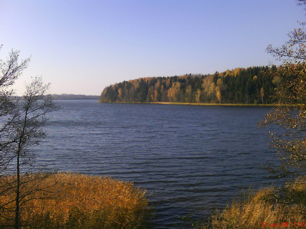 Lake in the village of Lotva